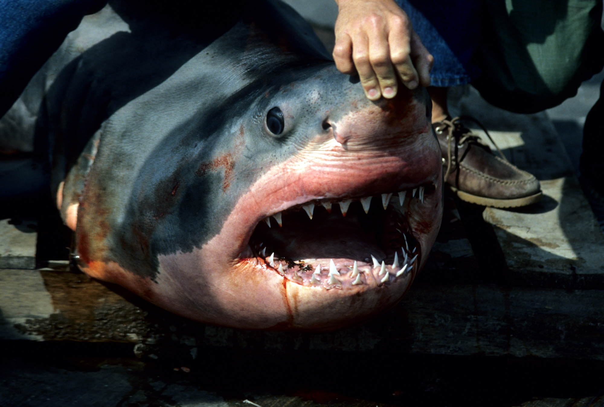 Great white shark (Carcharodon carcharias) caught by fisherman in small boat close to Bodega Bay study area.